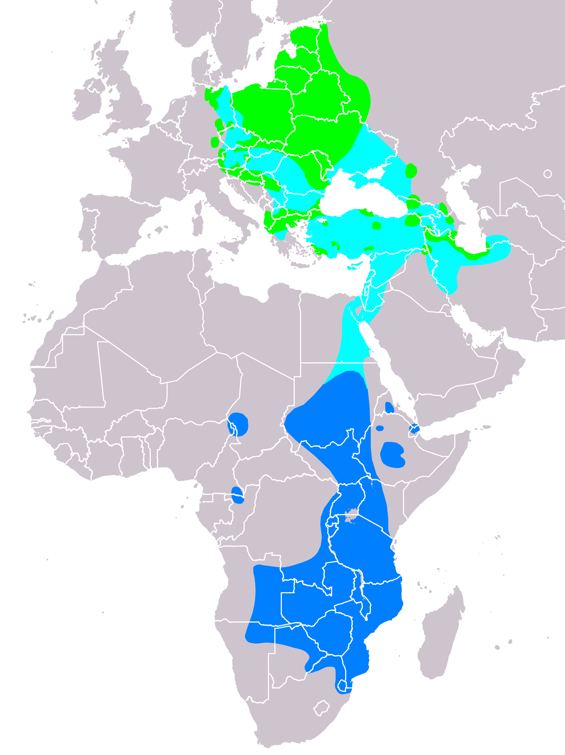 map of Lesser spotted eagle (Clanga pomarina) according to IUCN version 2018.2 , Legend: Extant, breeding (#00FF00), Extant, passage (#00FFFF), Extant, non-breeding (#007FFF)